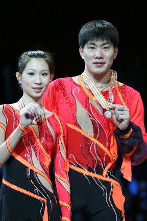 Zhang Dan / Zhang Hao during the pairs medals ceremony at the 2008 World Championships.